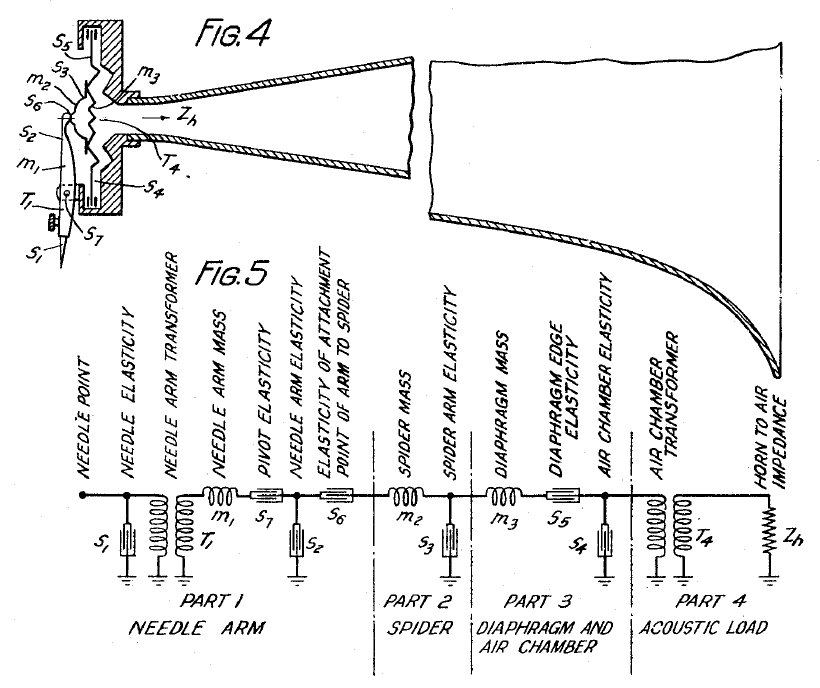 A mechanical filter for a sound reproducing apparatus and its electrical equivalent circuit.